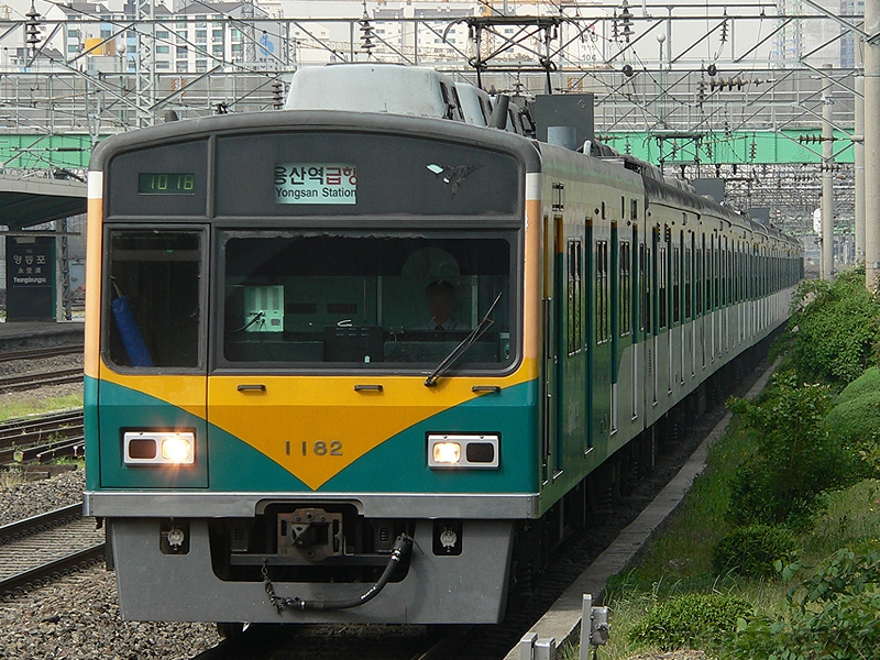 KORAIL 1000series EMU Last version (2nd type) Old Color